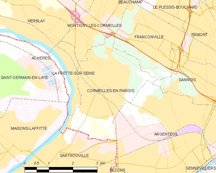 Map of French municipality Cormeilles-en-Parisis